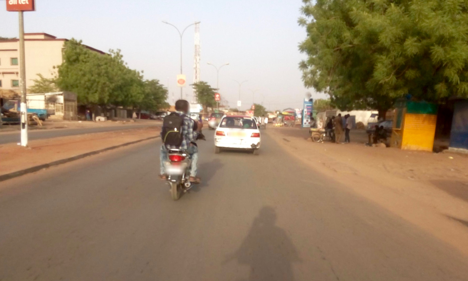 Boulevard Mali Béro as the boundary road between the quarters of Djeddah Koira Mè (left) and Boukoki II (right), Niamey.